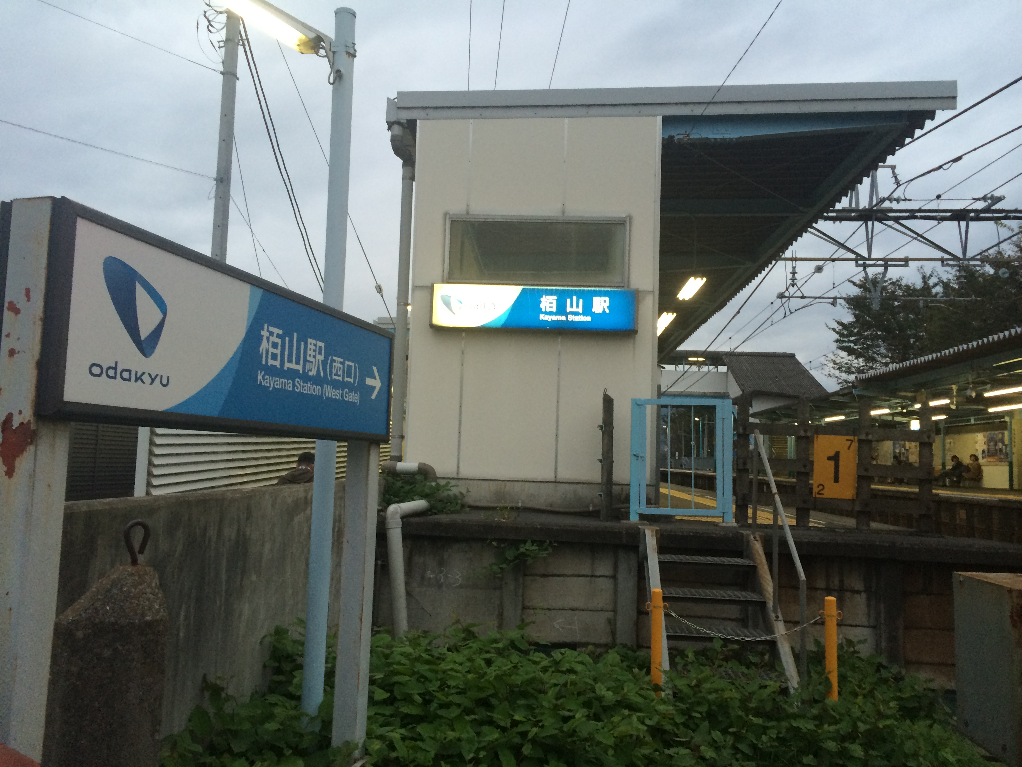 Kayama Station on the Odakyu Odawara Line in Kanagawa Prefecture, Japan